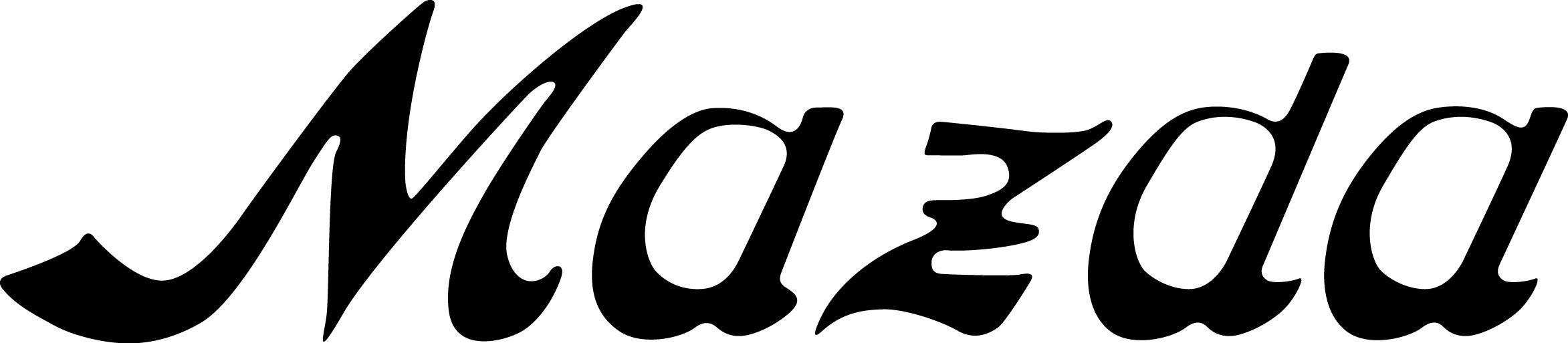 Mazda logo2 - year 1936